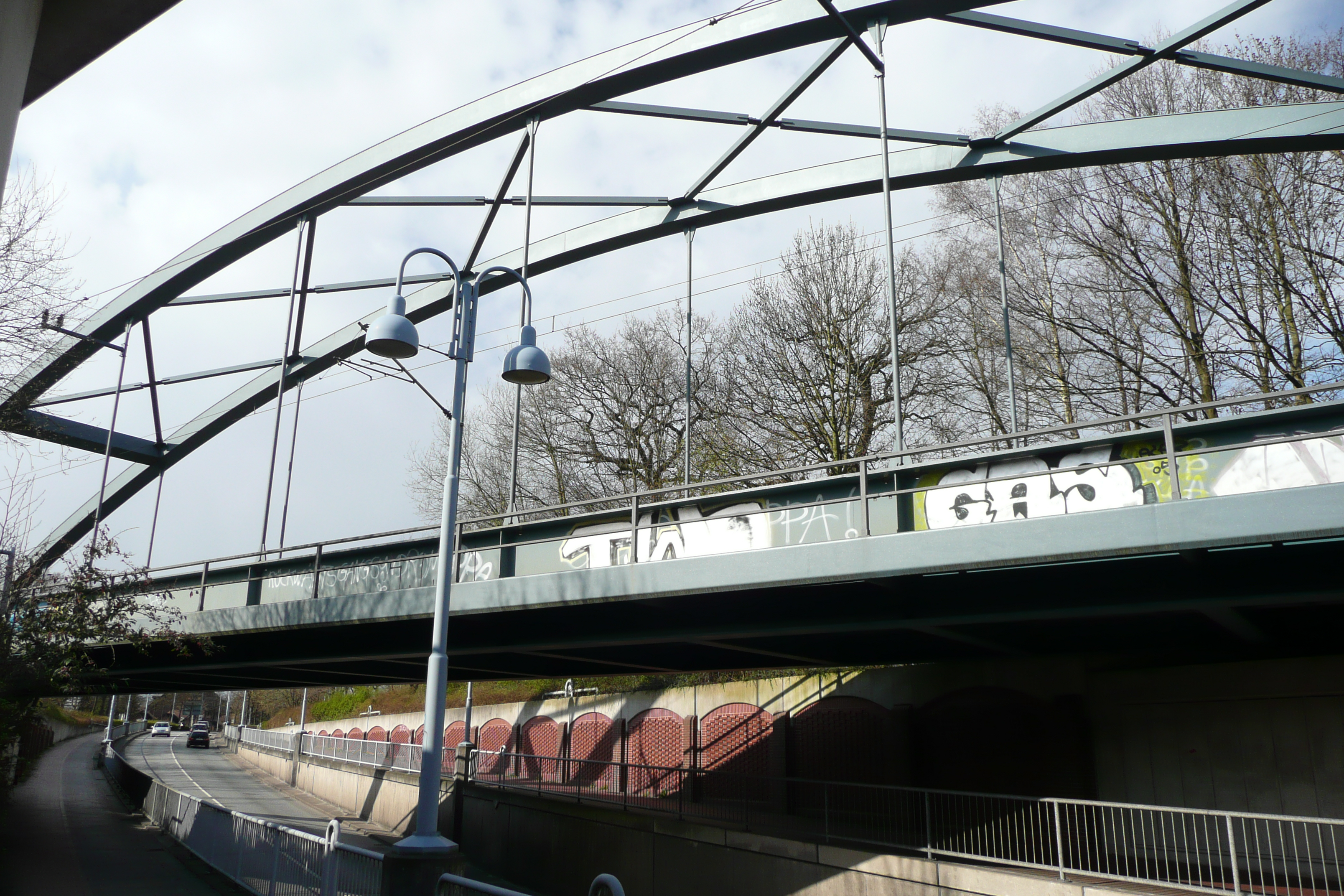 Railway bridge over Ammerländer Heerstraße in Oldenburg